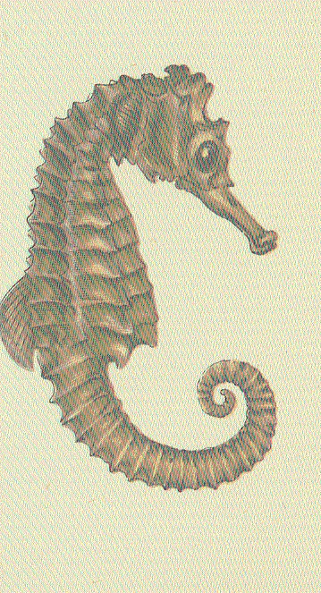 Hippocampus. Sea Horse Short-nosed Hippocampus Syngnathus hippocampus Hippocampus brevirostris Subject: Sea horses, Syngnathidae Tag: Fish